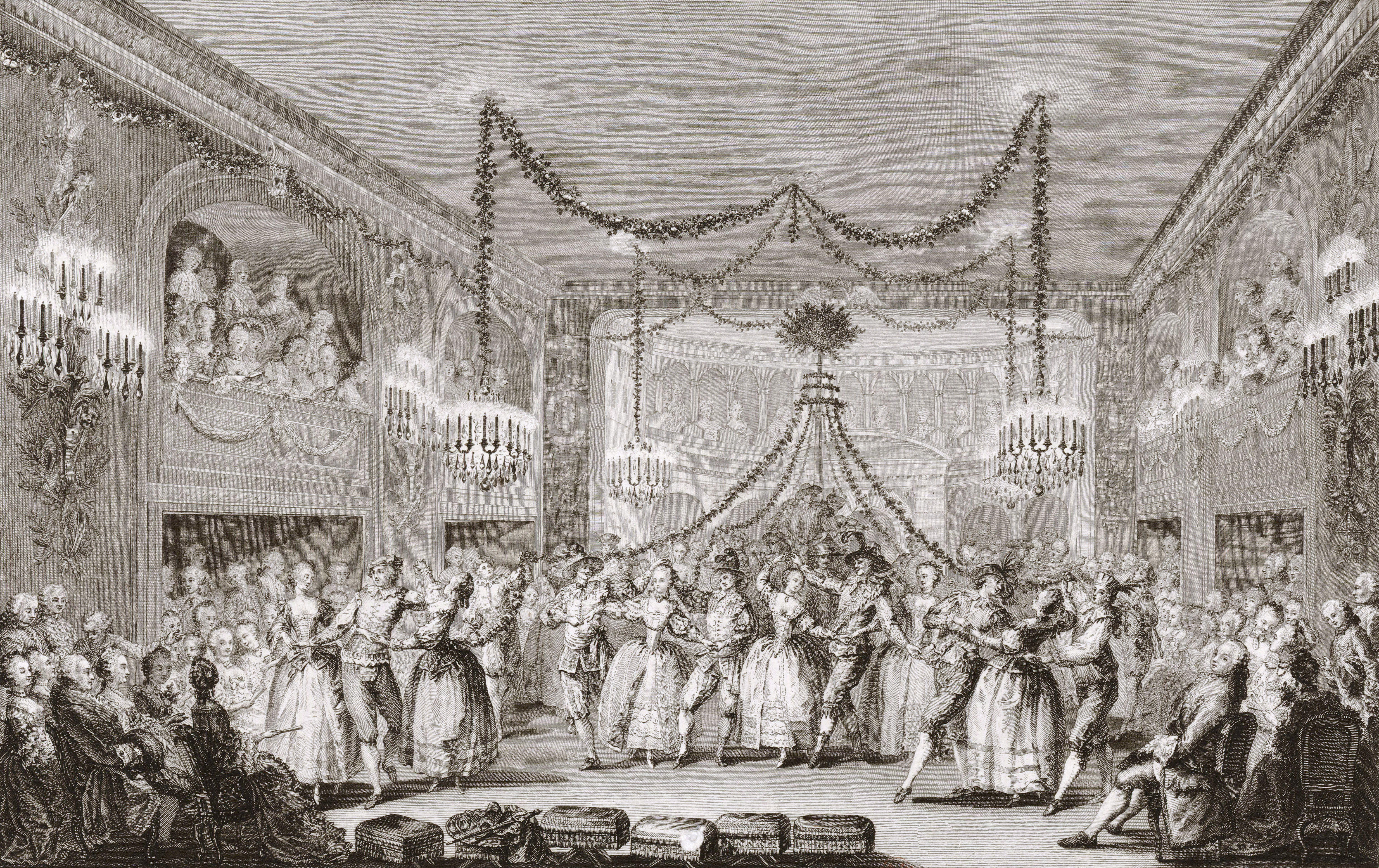 Carnival scene at the court of Versailles